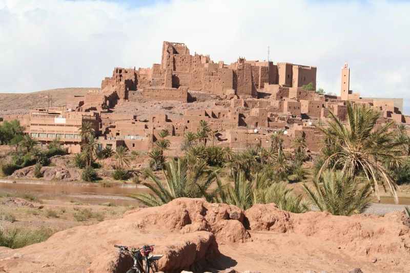 Kasbah Tifoultoute, 8 km west of Ouarzazate, Morocco.